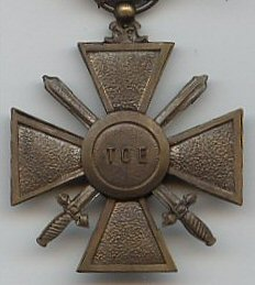 Reverse of the Croix de Guerre des Théatres d'Opérations Extérieures